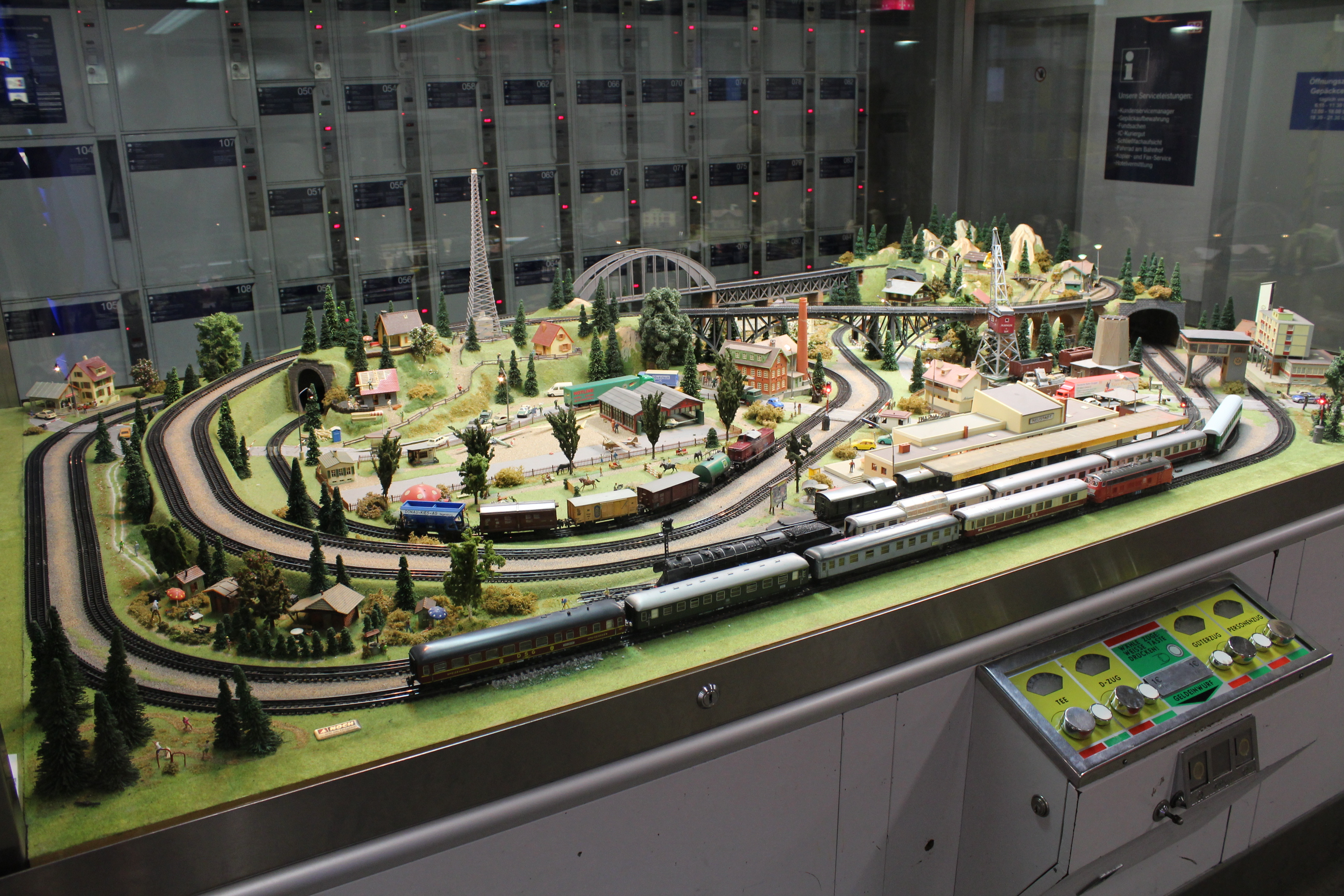 A model train set at the Dresden Hbf.